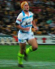 Nathan Friend